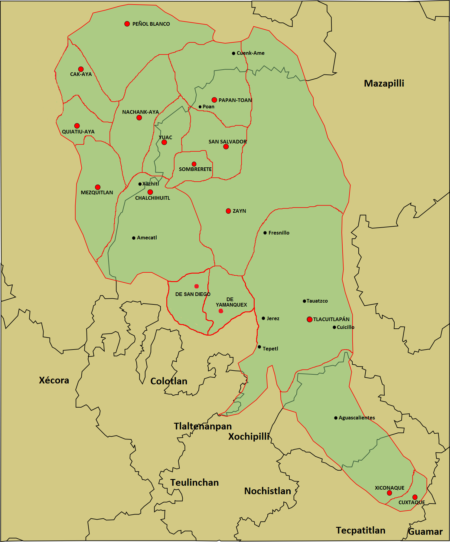 Map of the Zacatecan kingdoms (Tlahtocayotl) before the Spanish conquest, from the information of Powell.